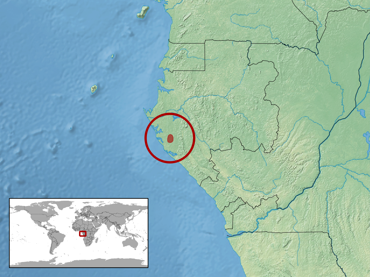 geographic distribution of Cynisca bifrontalis (Native: Gabon)